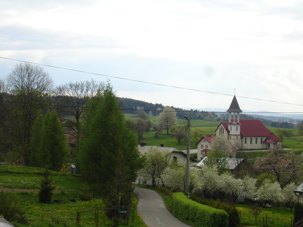 Trepcza new latin church